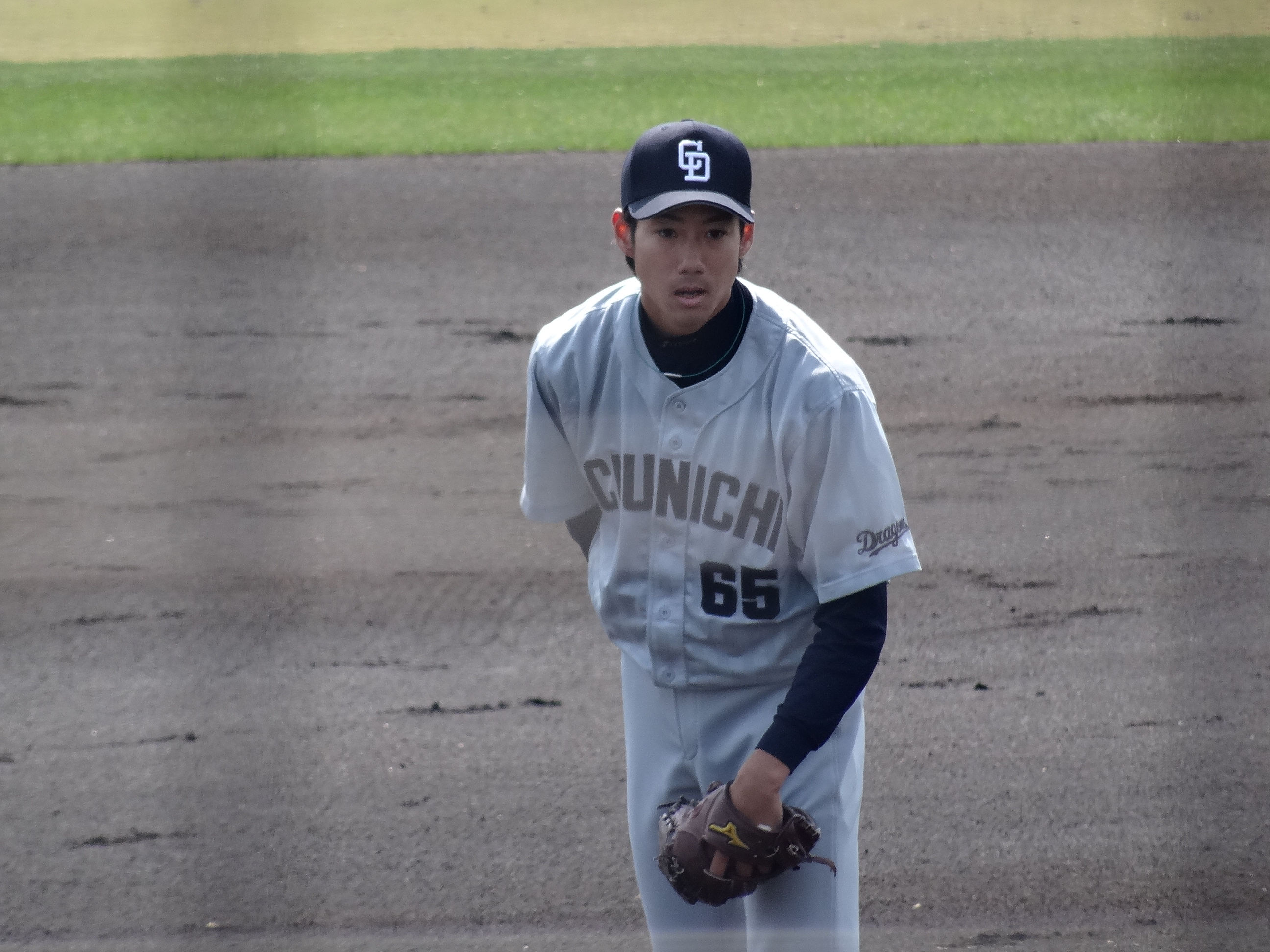 Junki Ito, pitcher of the Chunichi Dragons, at Hanshin Naruohama Baseball Ground.